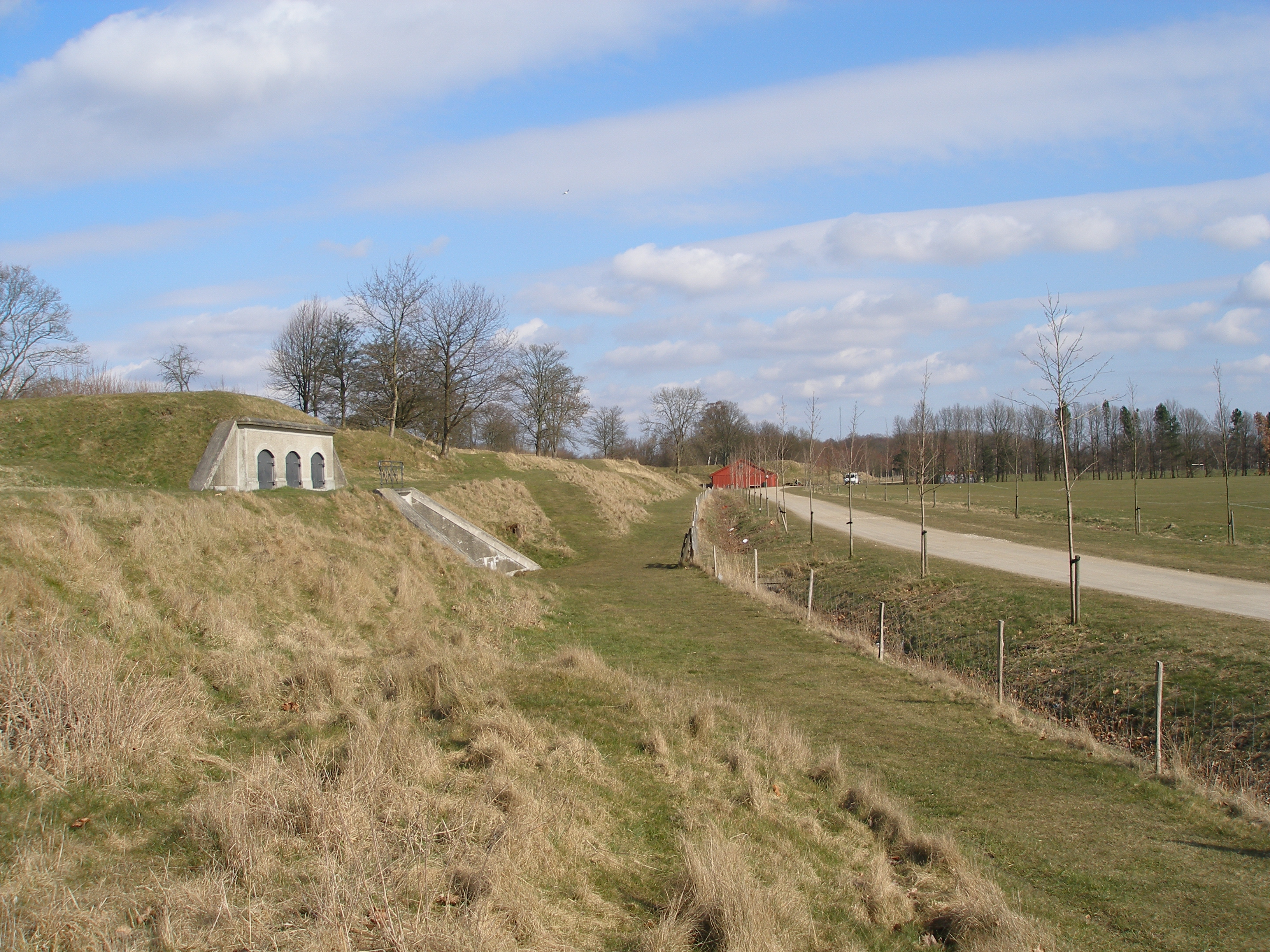 Part of Vestvolden (former fortification of Copenhagen) in Rødovre.